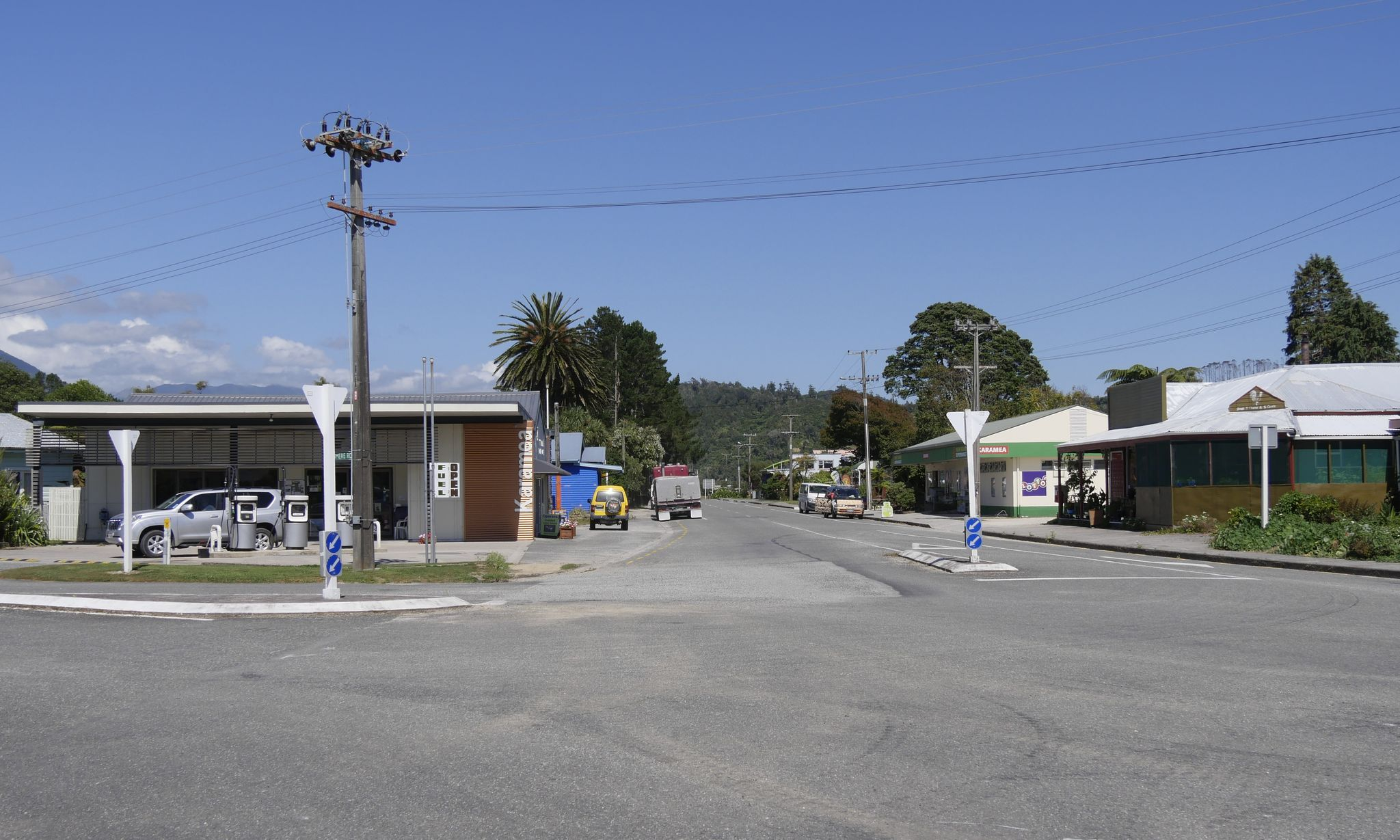 Karamea, crossroad Bridge Street, Buller District, West Coast region, South Island, New Zealand